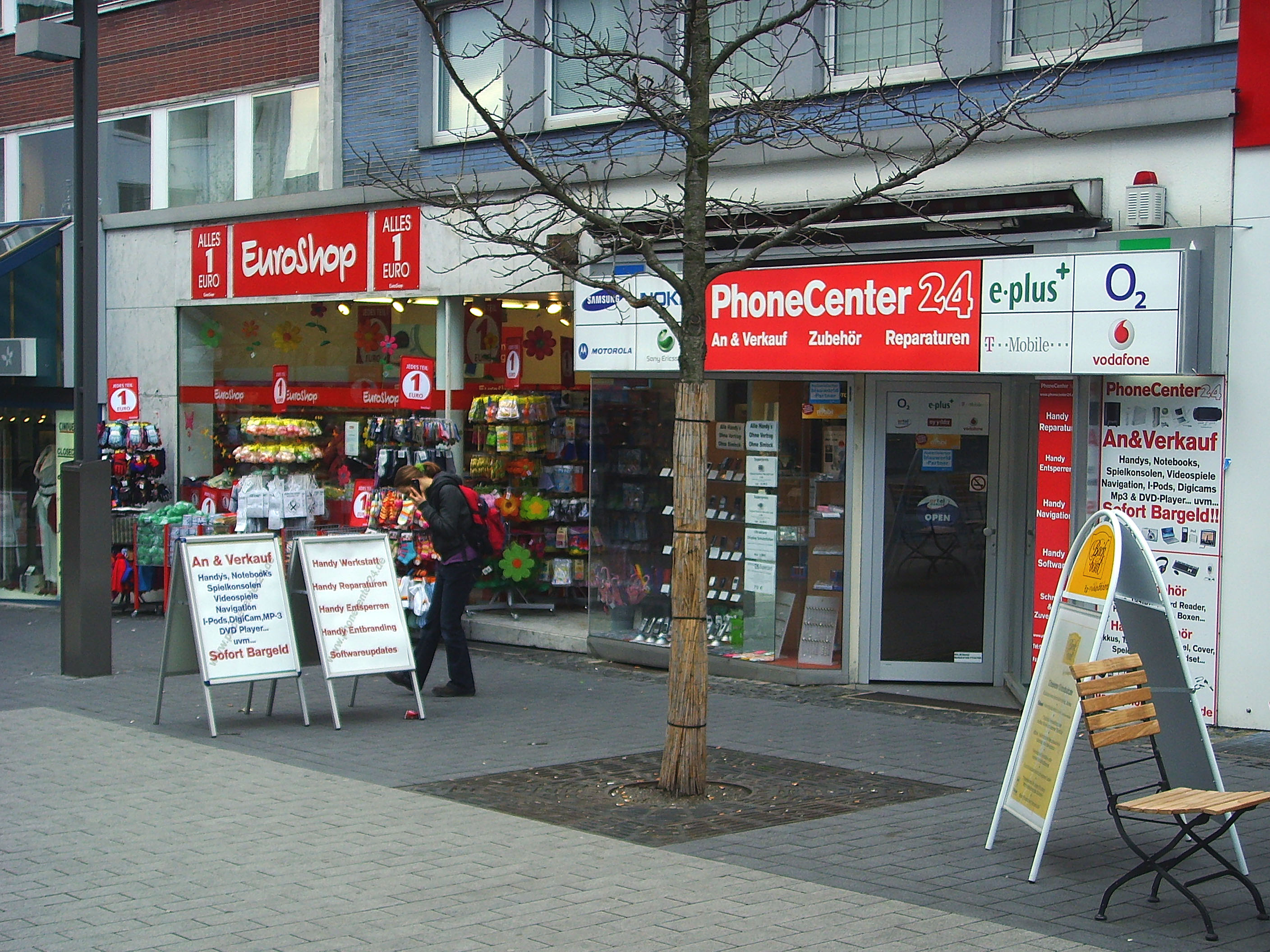 A cheap Shop and a mobile phone shop in Bochum, Huestraße